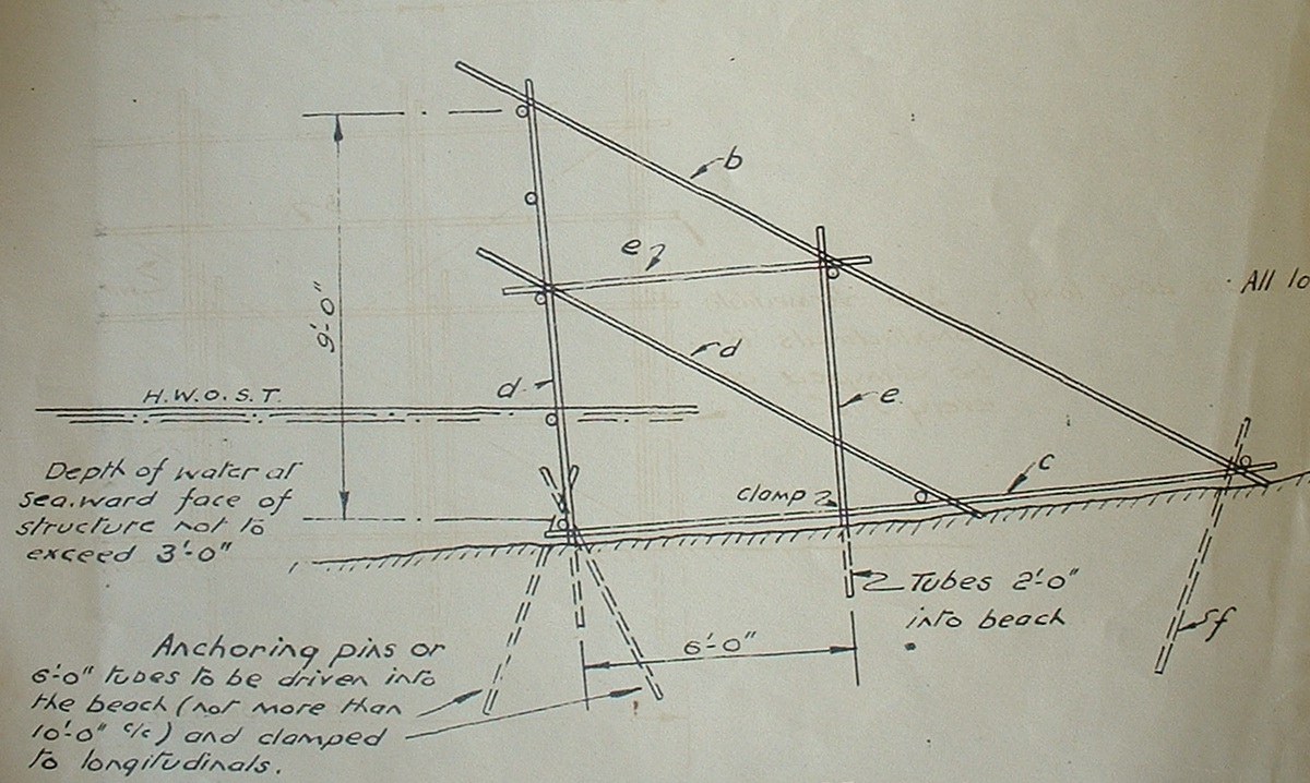 Drawing of beach scaffolding defence, an anti-boat and anti-tank obstacle. Type Z.1 also known as Admiralty Scafolding. Cropped from a larger image.